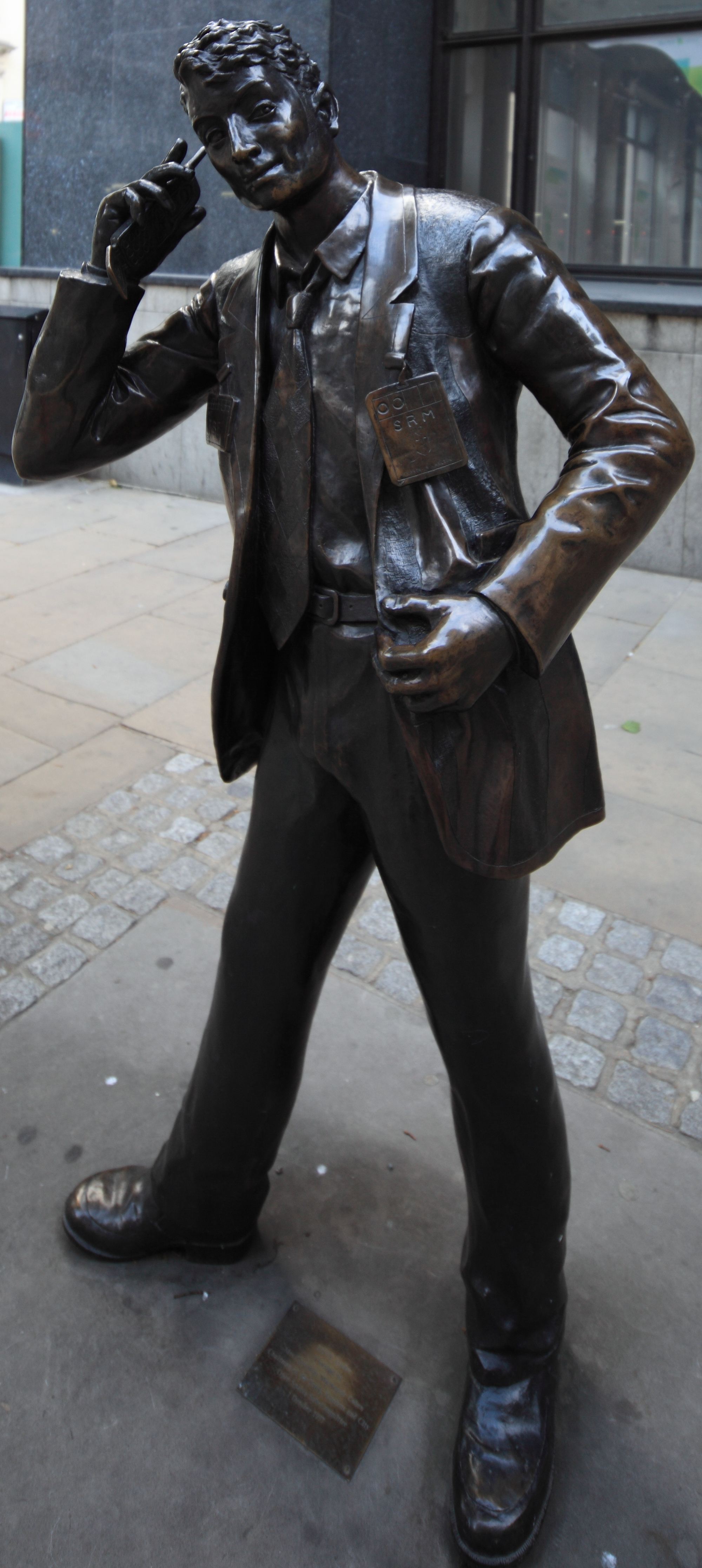 LIFFE Trader. Stephen Melton,1977. Sculpture opposite Cannon Street station.